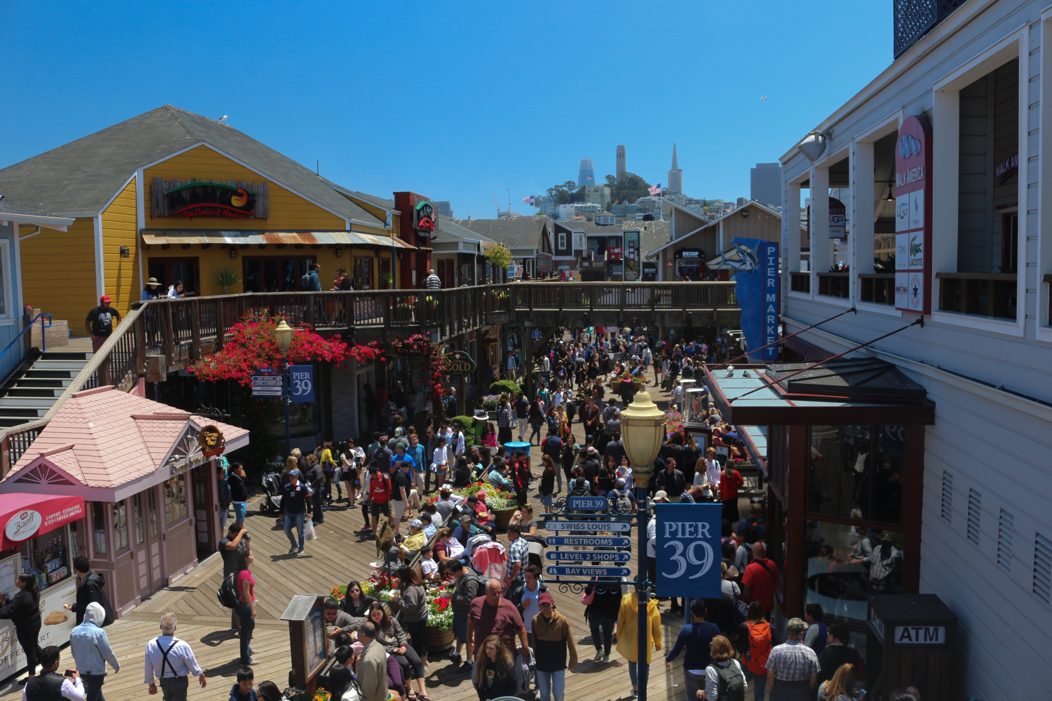 USA, California, San Francisco, Pier 39